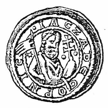 Bracteate with patriarchal cross of the slavic Fürst (prince, ruler) Jacza de Copnic (Jaxa von Köpenick), 12th century, Berlin.